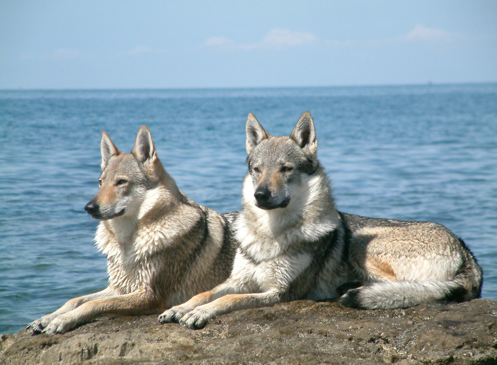 A pair of Czechoslovakian Wolfdogs